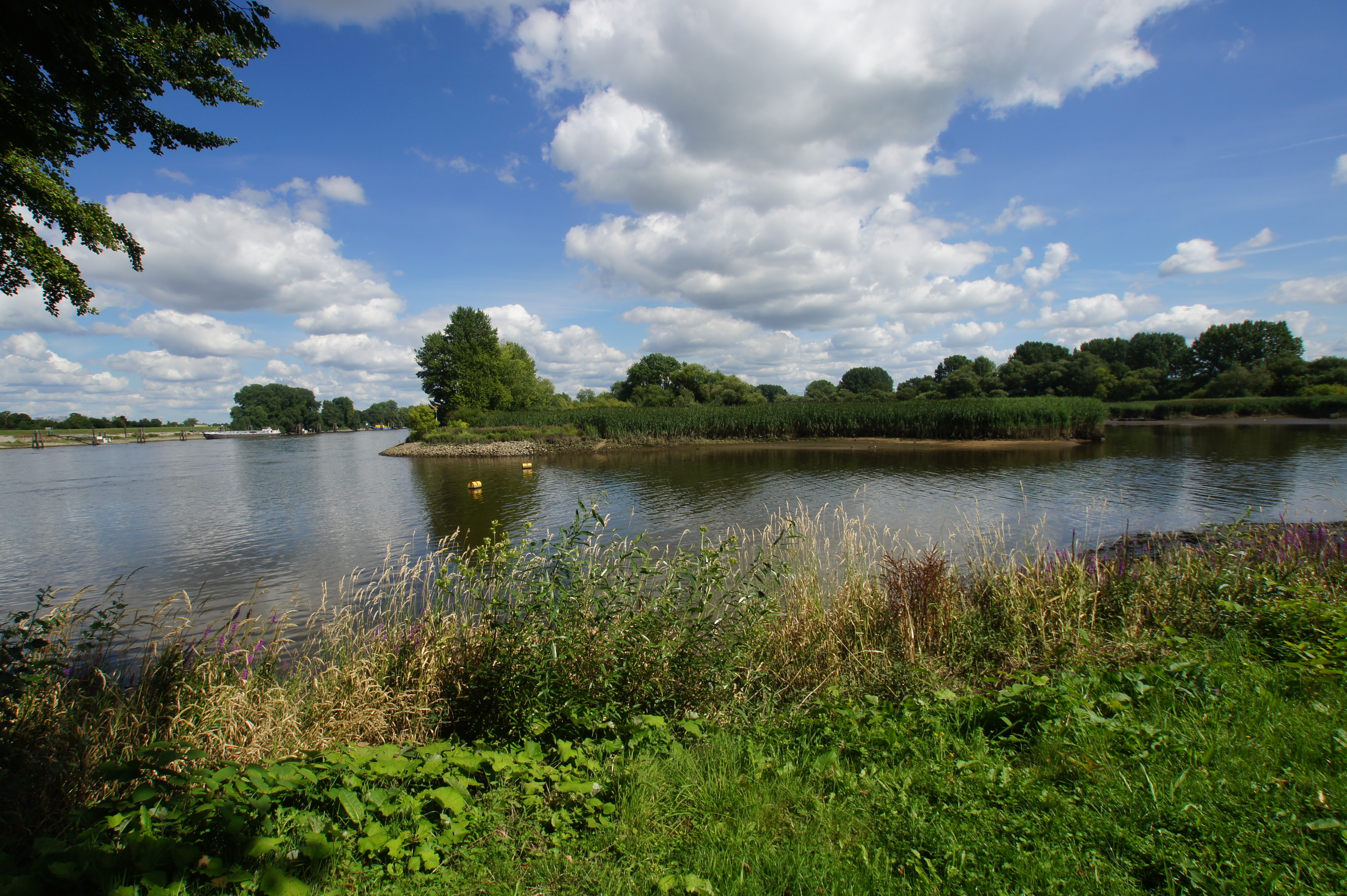 Hamburg (Neuland), Germany: Priel in the natural reserve Schweenssand as seen from the Pioniersinsel